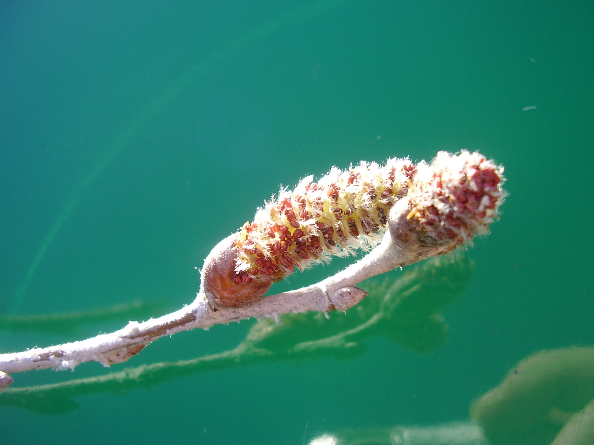 Populus alba own work Rob Hille